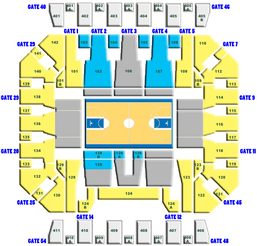 Olympic Indoor Hall Athens OAKA plan